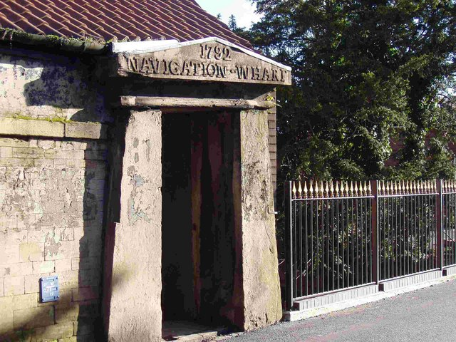 Navigation Wharf